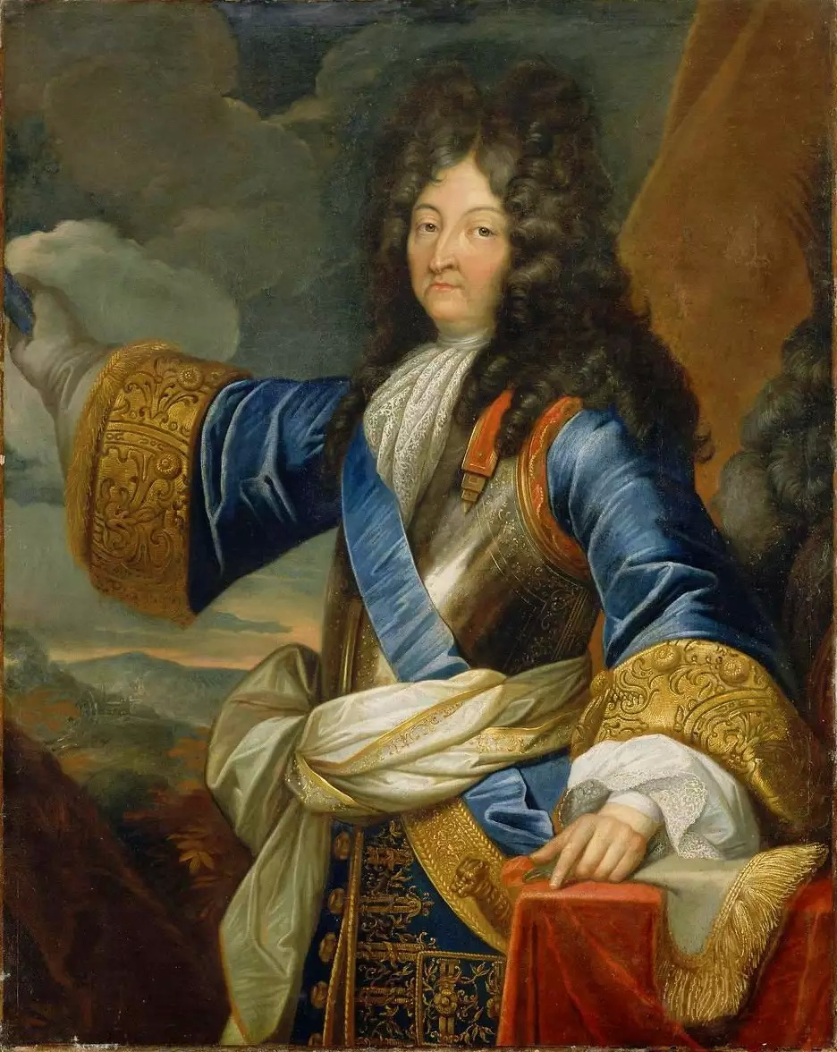 Portrait of Louis XIV of France (1638-1715)